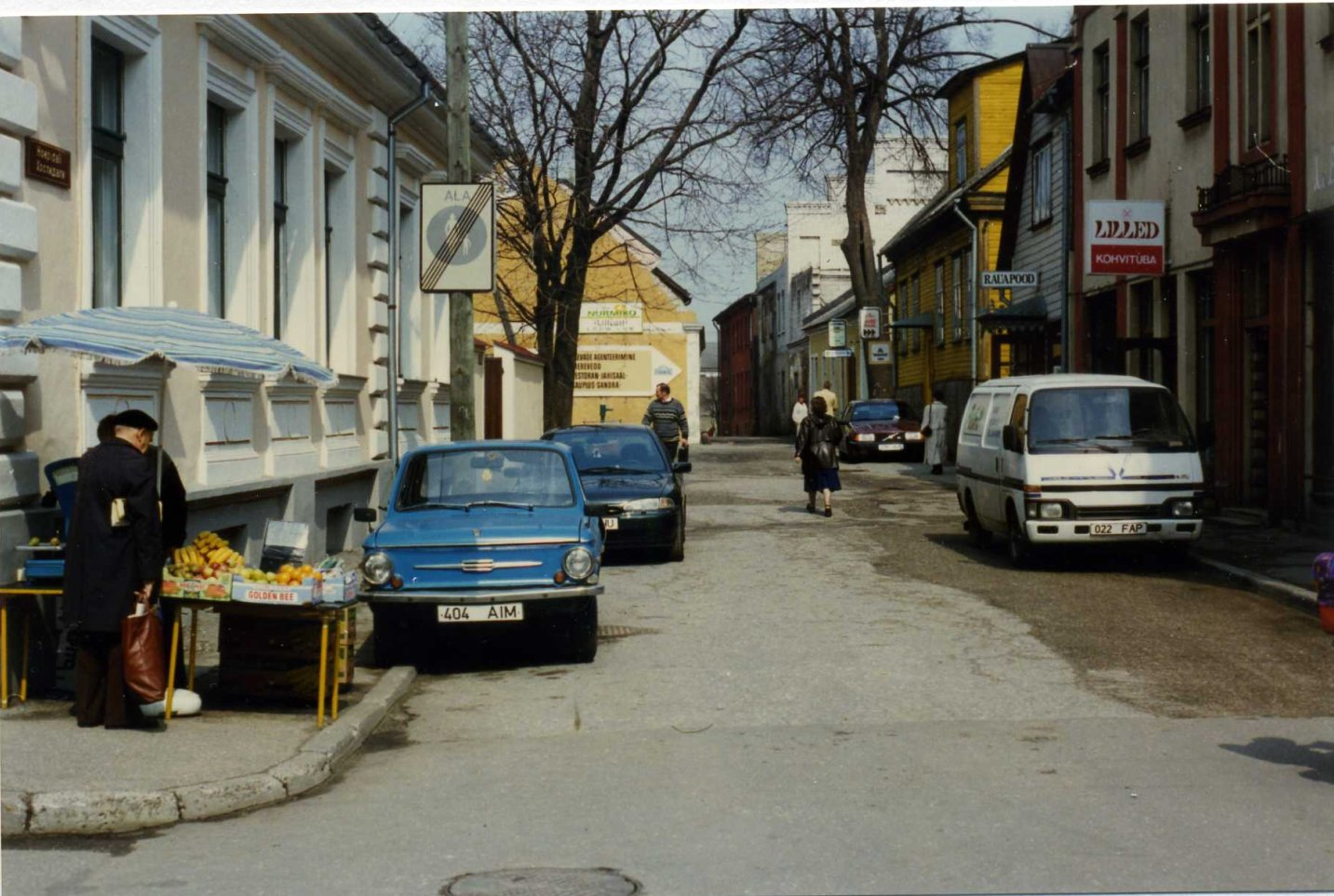 Hospidali street in Parnu, Estonia, May 1996. Among the vehicles on the picture there is a blue ZAZ-968 Zaporozhets.